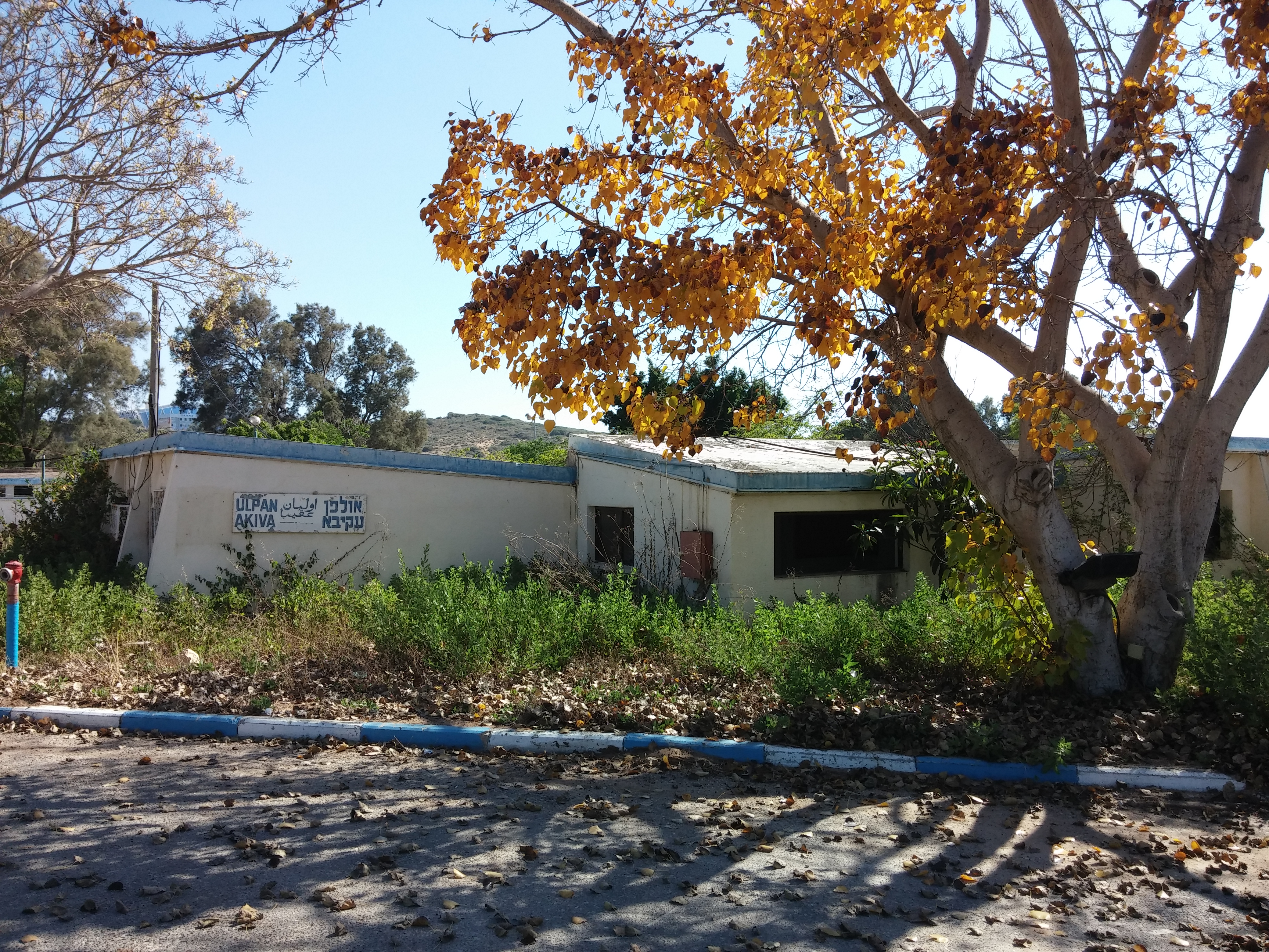 Abandoned buildings of Ulpan Akiva